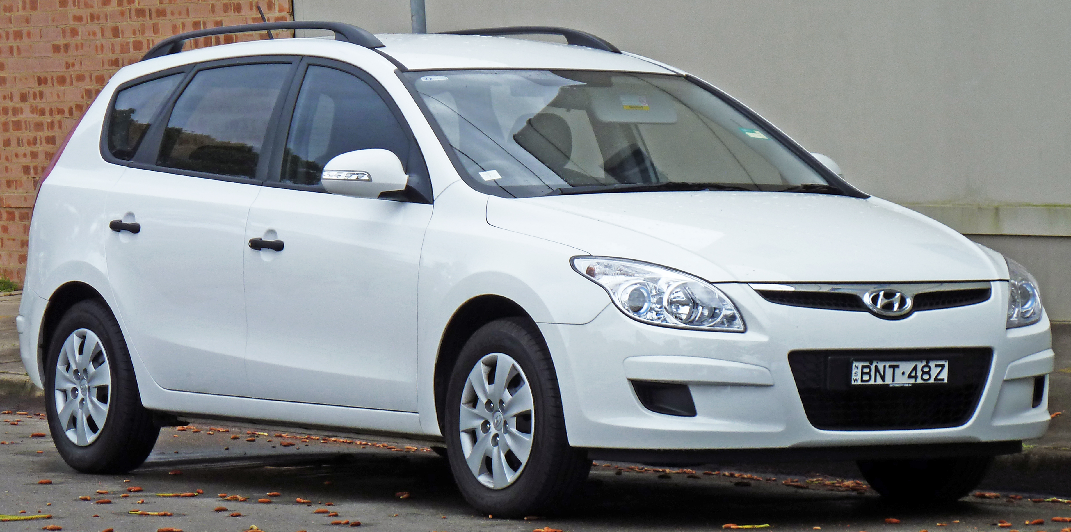 2009–2010 Hyundai i30cw (FD) SX station wagon. Photographed in Sandringham, New South Wales, Australia.